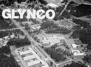 Federal Law Enforcement Training Center at Glynco, Georgia, USA